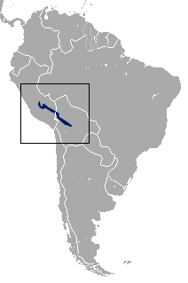 Osgood's Short-tailed Opossum (Monodelphis osgoodi) range